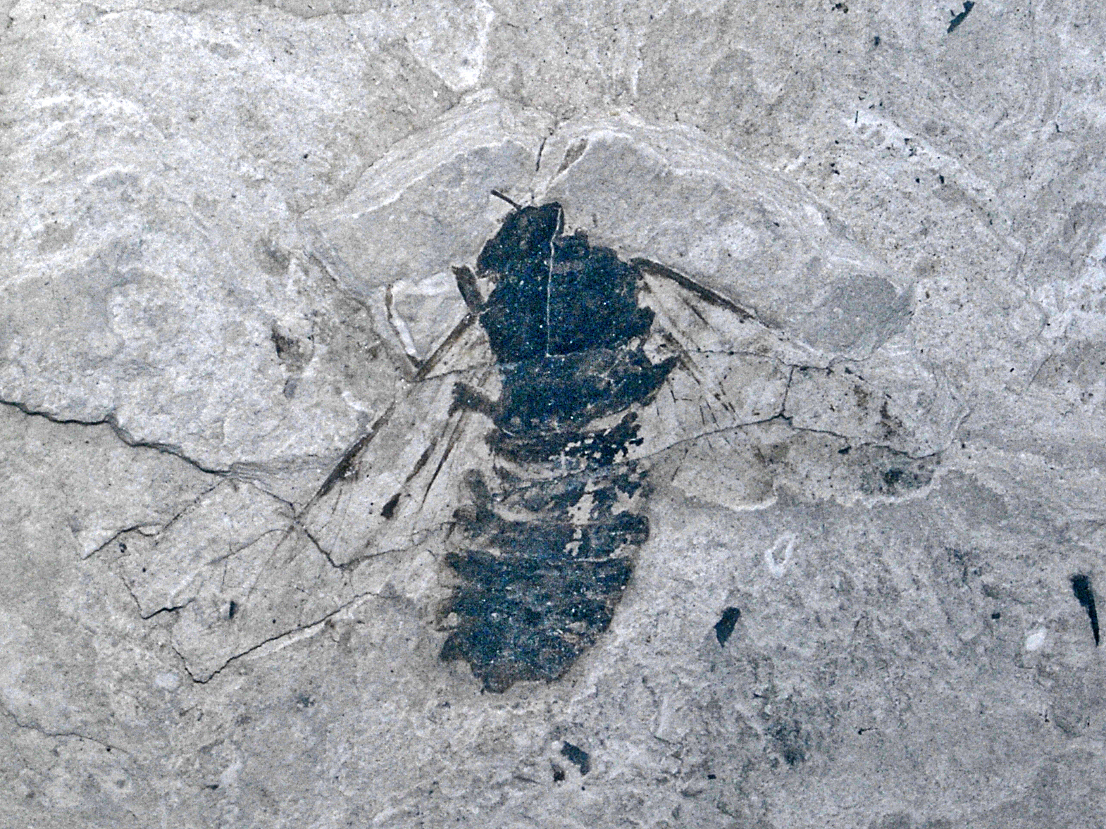 Fossil of Cimbex species. Museum specimen